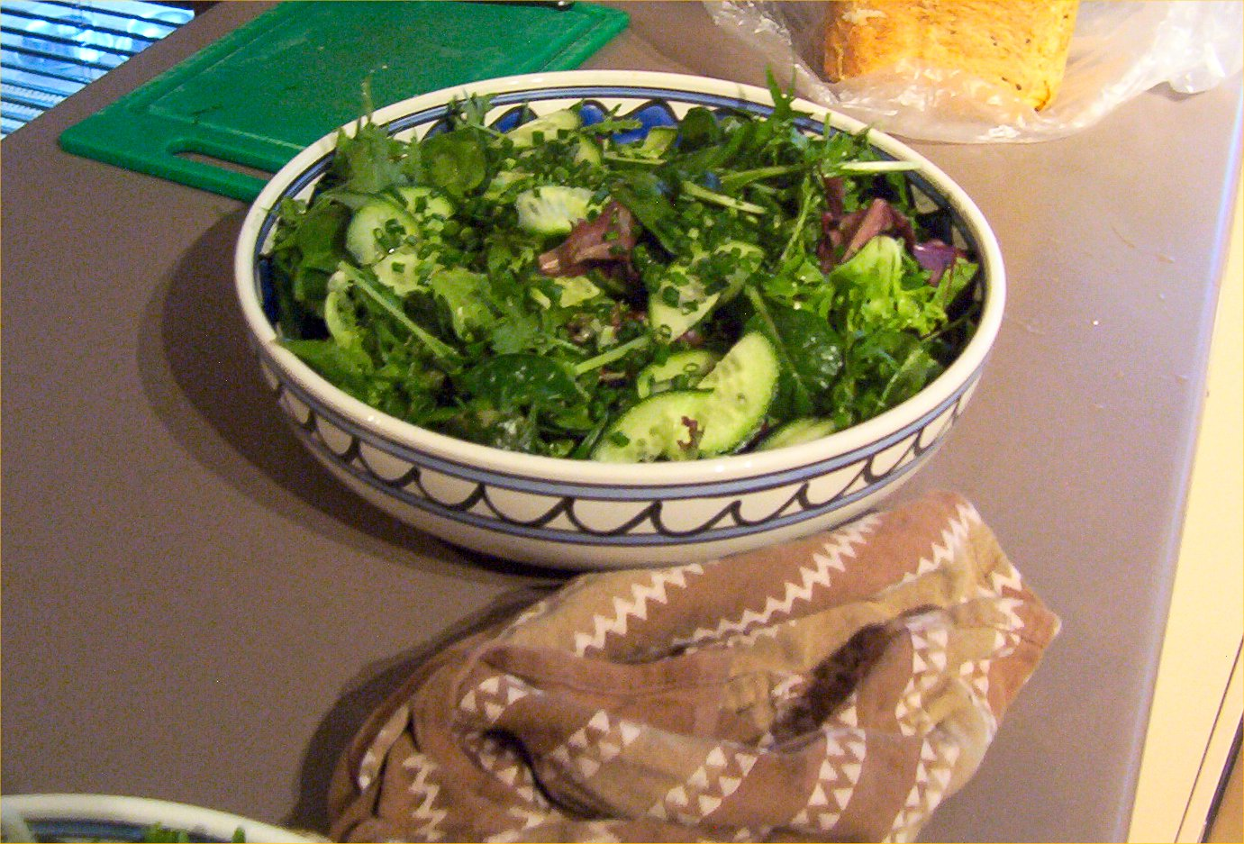 A picture taken, of A Green Salad.